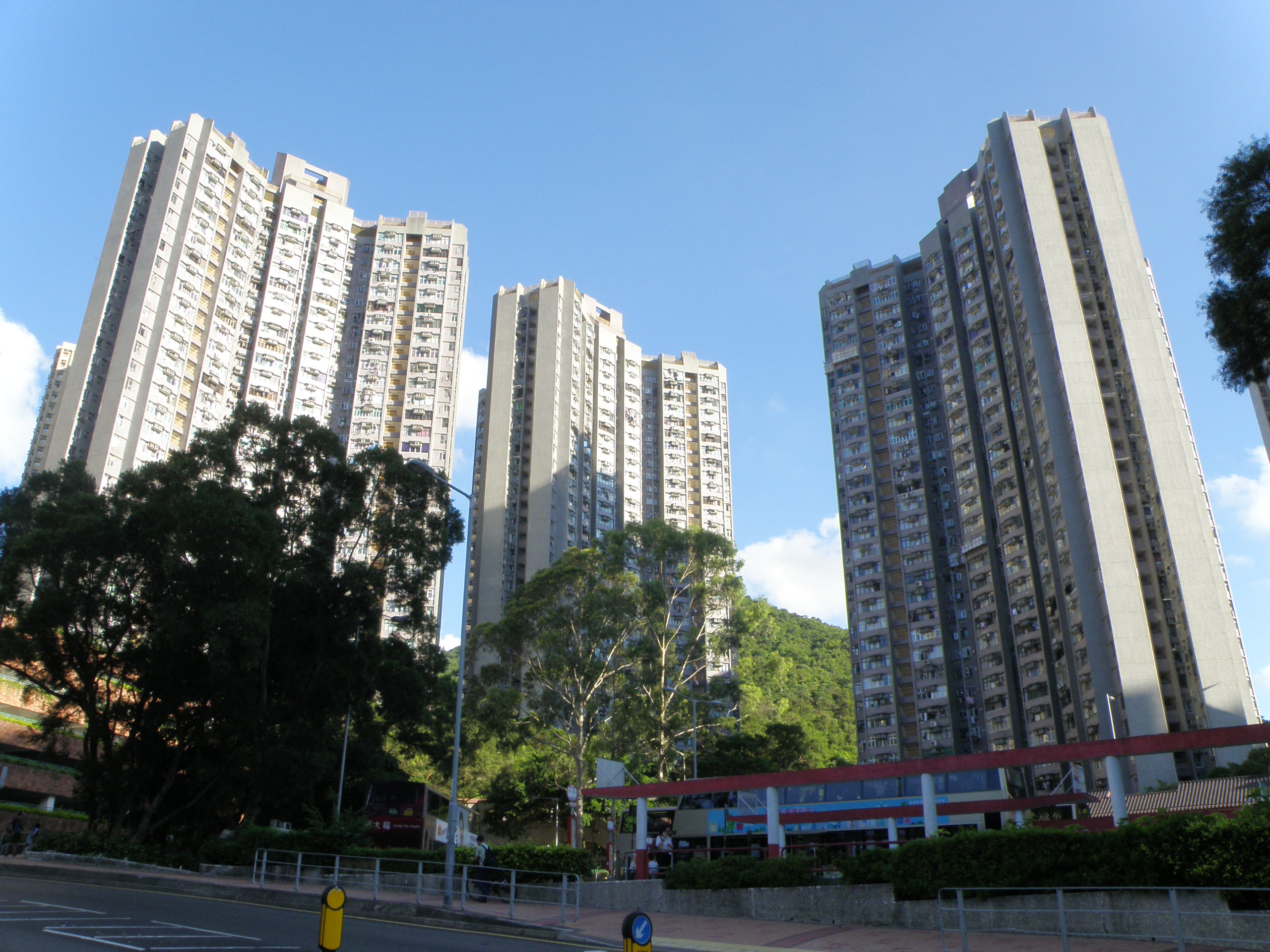 Kwong Lam Court in Siu Lek Yuen, Hong Kong.